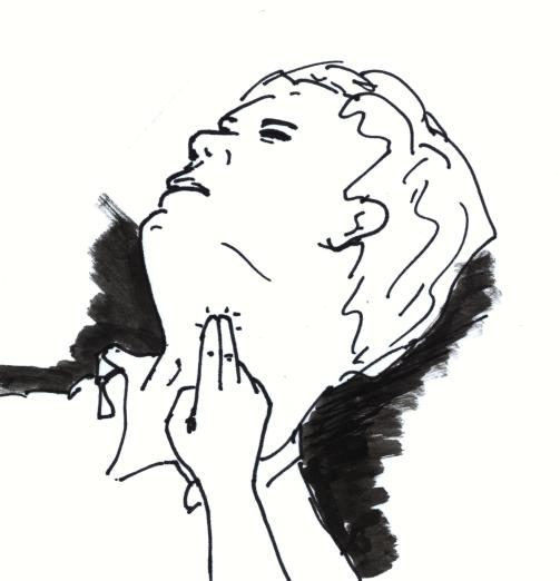 Carotidian pulse